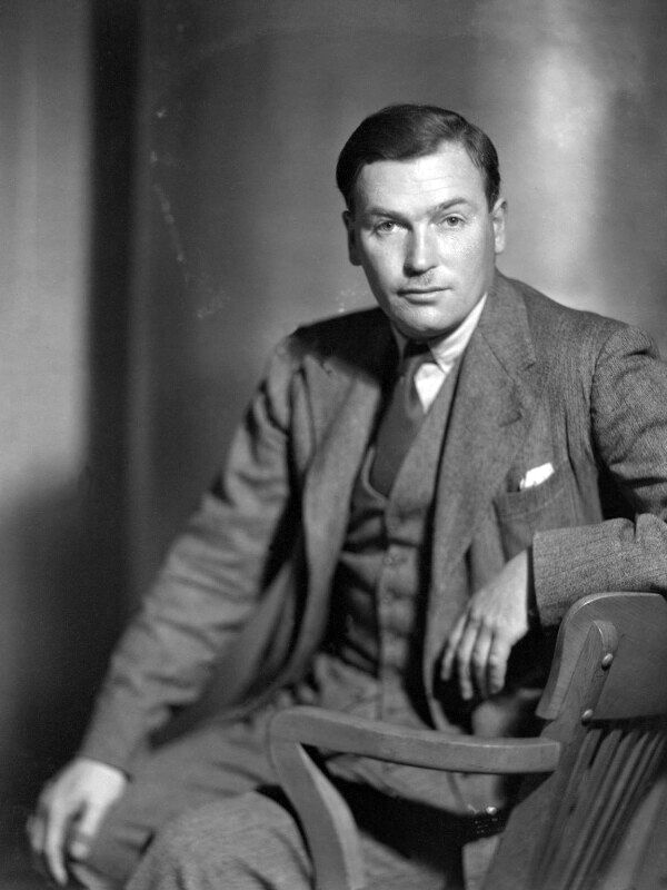 (Edward Godfree) Richard Aldington by Howard Coster 10 x 8 inch film negative, 1931